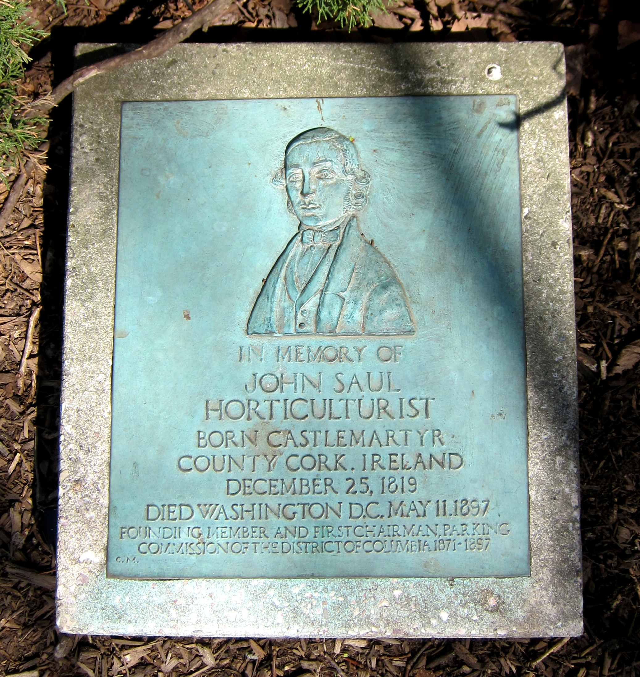 A plaque honoring John Hennessy Saul is located on E Street NW in Washington, D.C., northeast of The Ellipse.